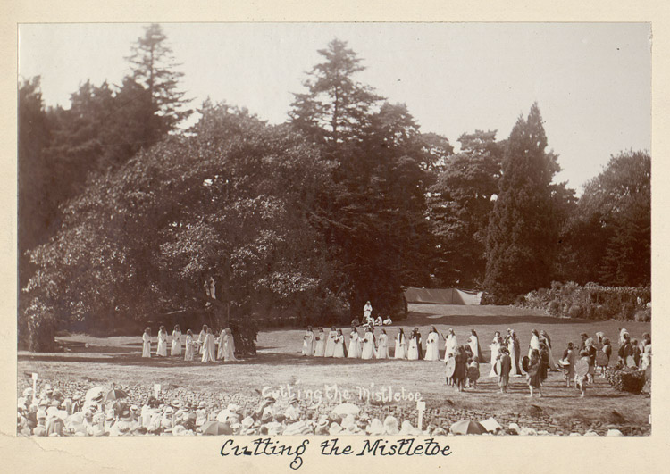 Ffotograffydd/Photographer: P. B. Abery (1877?-1948) & Wallace Jones Dyddiad/Date: 11th August 1909 Cyfrwng/Medium: Photographic print Cyfeiriad/Reference: pba01914 Rhif cofnod / Record no.: 3590090 This image is taken from the Builth Wells Historical Pageant photograph album, which includes approximately 160 photographs, newspaper cuttings and other ephemera of the majestic pageant which was performed at the grounds of Llanelwedd Hall on 11 August 1909. The photographs were taken by P B Abery and Wallace Jones. The pageant was an epic production. According to a transcript included in the album, it took a year to prepare, over a 1000 people took part in the event, and it is reported to have been witnessed by a crowd of around 5000. Daw'r ffotograff yma o lyfr ffoto Pasiant Llanfair ym Muallt, sy'n cynnwys tua 160 o ffotograffau, toriadau’r wasg ac effemera sy’n ymwneud â’r pasiant mawreddog a berfformiwyd ar faes Neuadd Llanelwedd ar 11 Awst 1909. Tynnwyd y ffotograffau gan P B Abery a Wallace Jones. Roedd y pasiant yn ddigwyddiad ysblennydd. Yn ôl adysgrif sydd wedi ei chynnwys yn yr albwm, cymerodd flwyddyn i baratoi’r digwyddiad, bu 1000 o bobl yn rhan o’r paratoadau, ac adroddir fod tyrfa o tua 5000 yn ei wylio. Rhagor o wybodaeth am gasgliad P B Abery yn Llyfrgell Genedlaethol Cymru More information about the P B Abery Collection at the National Library of Wales